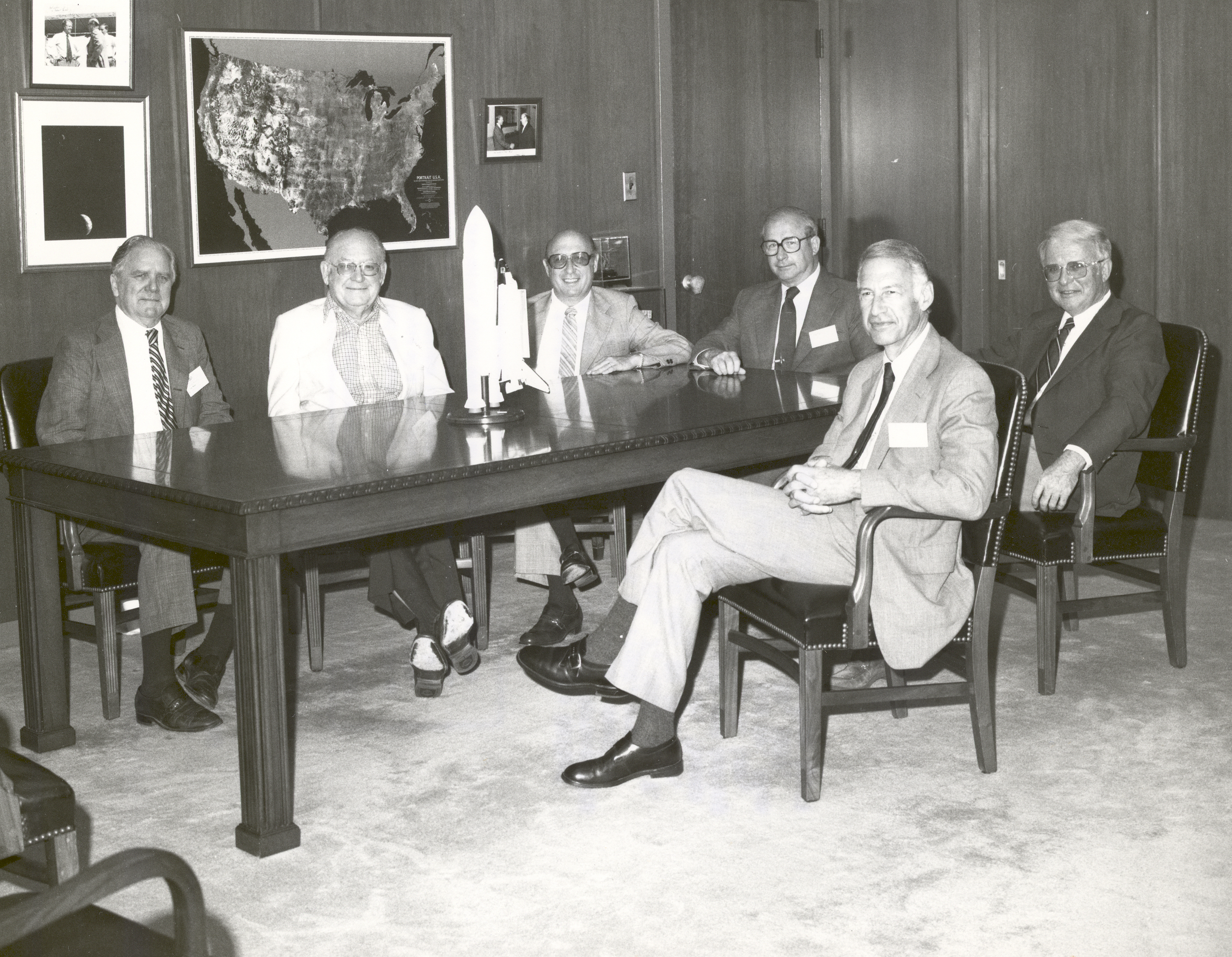 The administrators who directed the United States space program since the establishment of the National Aeronautics and Space Administration in October 1958 met at a NASA Alumni meeting held in Washington June 3, 1980. Shown above, left to right, are: James E. Webb, Administrator from February 14, 1961, to October 7, 1968; T. Keith Glennan, Administrator from August 19, 1958, to January 20, 1961; Dr. Robert A Frosch, Administrator from June 21, 1977, to January 20, 1981; Dr. Thomas O. Paine, Administrator from March 21, 1969, to September 15, 1970 and Acting Administrator from October 8, 1968, to March 20, 1969; Dr. George M. Low, Acting Administrator from September 16, 1970, to April 26, 1971; Dr. Alan M. Lovelace, Acting Administrator from Amy 2, 1977, to June 20, 1977.